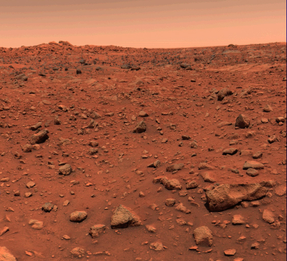 First colour image from Viking Lander 1. This color picture of Mars was taken July 21 1976 -- the day following Viking l's successful landing on the planet. The local time on Mars is approximately noon. The view is southeast from the Viking. Orange- red surface materials cover most of the surface, apparently forming a thin veneer over darker bedrock exposed in patches, as in the lower right. The reddish surface materials may be limonite (hydrated ferric oxide). Such weathering products form on Earth in the presence of water and an oxidizing atmosphere. The sky has a reddish cast, probably due to scattering and reflection from reddish sediment suspended in the lower atmosphere. The scene was scanned three times by the spacecraft's camera number 2, through a different color filter each time. To assist in balancing the colors, a second picture was taken of z test chart mounted on the rear of the spacecraft. Color data for these patches were adjusted until the patches were an appropriate color of gray. The same calibration was then used for the entire scene.